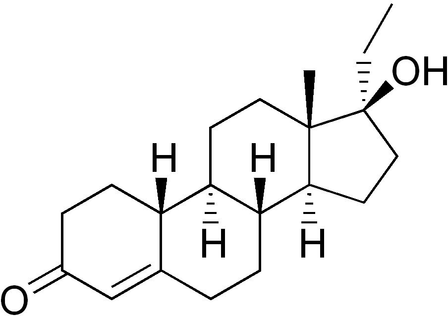 chemical structure of norethandrolone